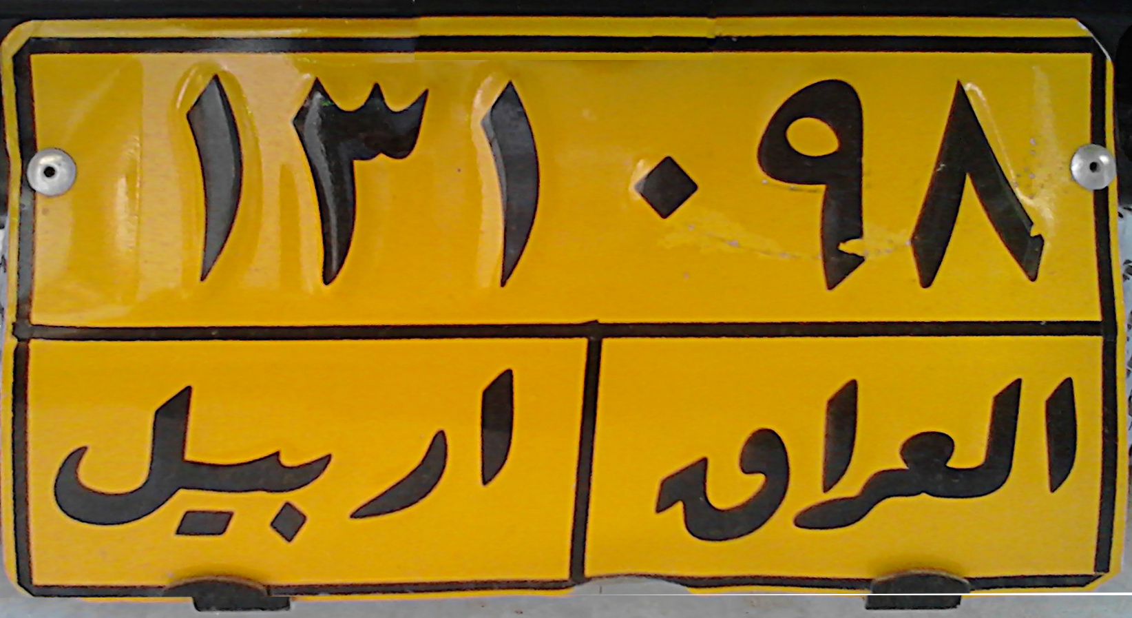 Truck plate in Erbil Province (retouched)